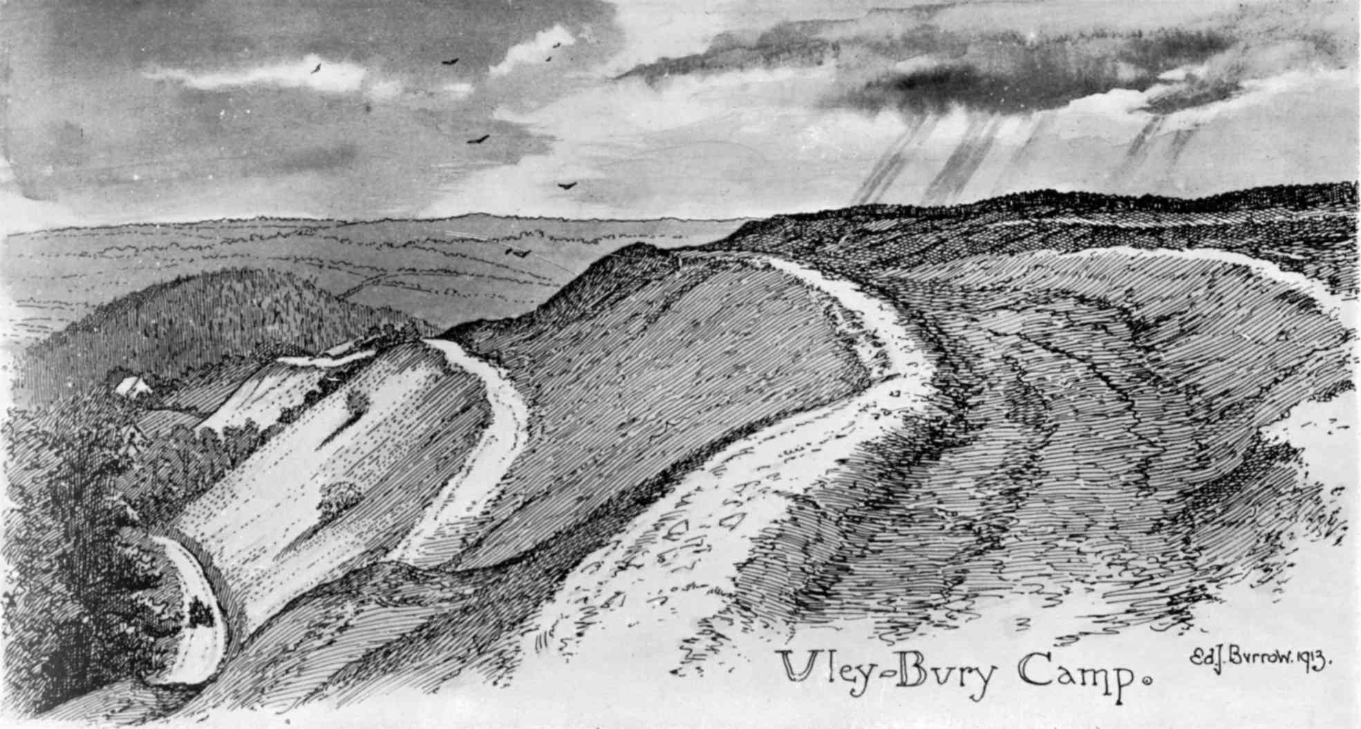 View along the north-east rampart of Uley Bury hill fort in Gloucestershire UK.